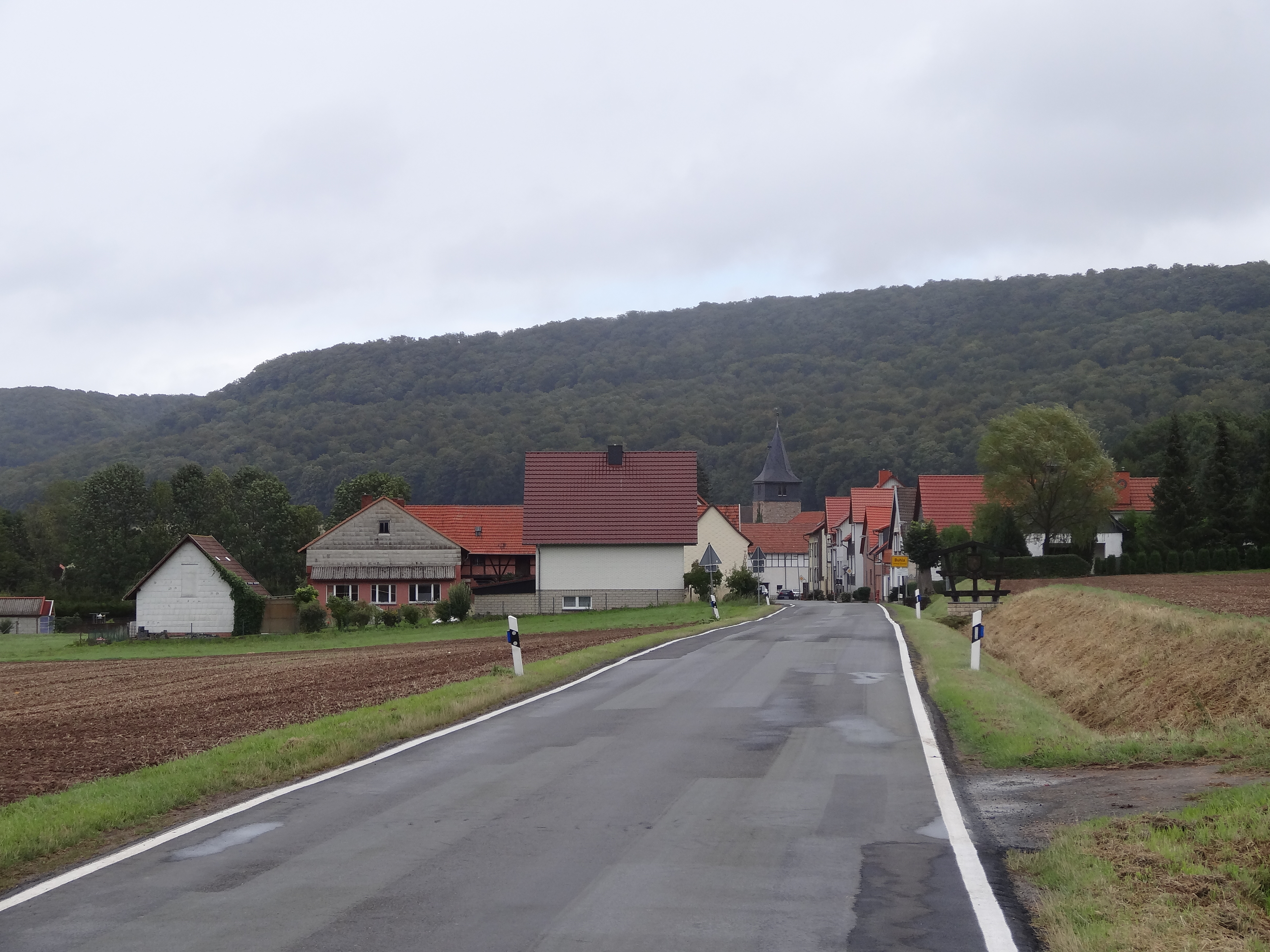 View on Buhla, Thuringia, Germany